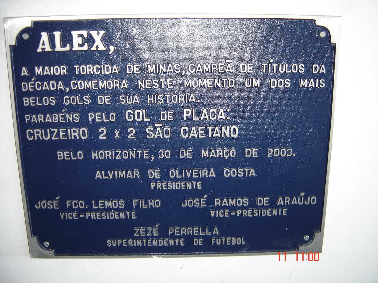 Plate localized in the Entry Hall of the Mineirão Stadium, in homage to the football player Alex, of Cruzeiro EC. Placa presente no Hall de Entrada do Estádio Mineirão em homenagem ao jogador Alex, do Cruzeiro.